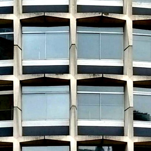 One Kemble Street detail